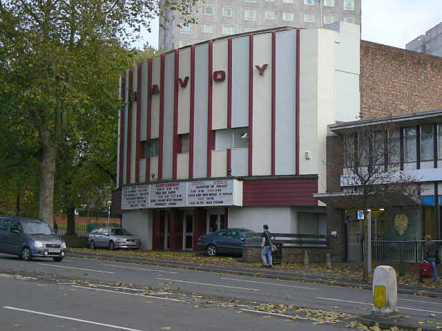 Savoy Cinema A remarkable survival of a traditional suburban cinema, still independent of the main multiplex groups. It owes its survival to being in an area with a high student population and being adventurous in its choice of films. On this view, one of the films being advertised (for a single showing) is the cult 'Withnail and I'.